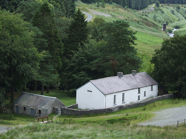 Soar y Mynydd Chapel, Ceredigion Soar y Mynydd is a Welsh Calvinistic Methodist chapel, and is possibly the most remote chapel in Wales......now. That it was built (in the 1820s) at all suggests that the area was much more densely populated at that time. Also, at that time, many people were deserting the Church of Wales to become Methodists. The two-storey chapel is built to a traditional design with a long side-wall; the pulpit is located between the two doorways.